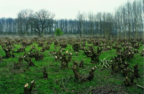 Ash trees in Overlangbroek